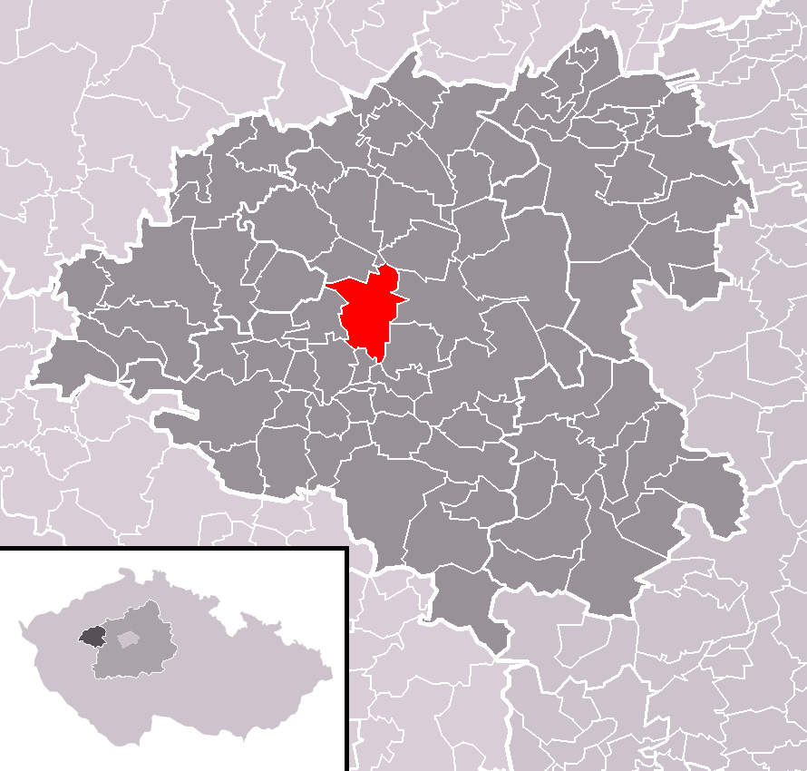 Location of Senomaty municipality within Rakovník District and (identical) administrative area of Rakovník as a Municipality with Extended Competence.